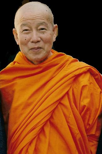 ភាសាខ្មែរ: Picture of Don Bosco Social Communication Section, Sihanoukville, Cambodia, from Promundo Internation, Italy. Public domain.